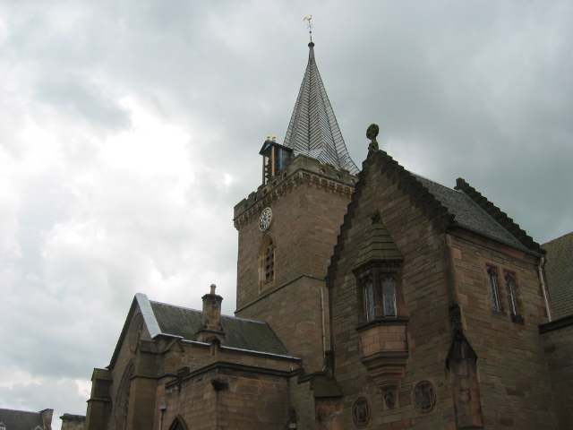 St. John's Kirk, Perth, Scotland. Photo taken by Dudesleeper on June 7, 2003.